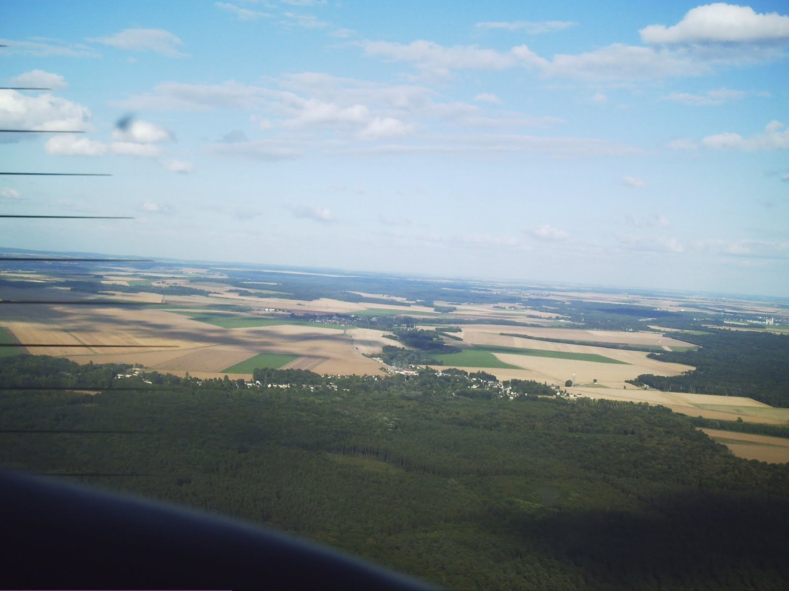 Ermenonville from the sky.